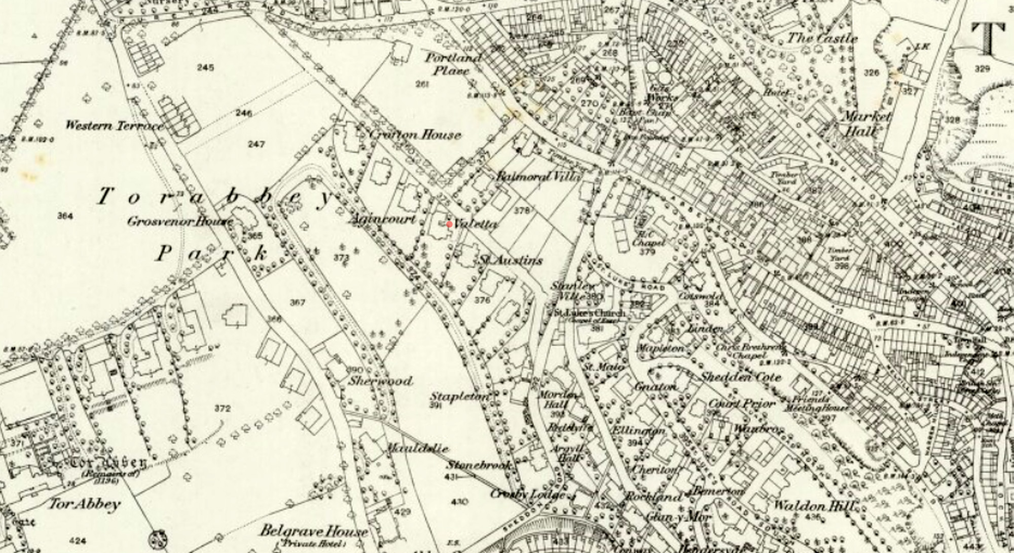 Map Torquay 1860